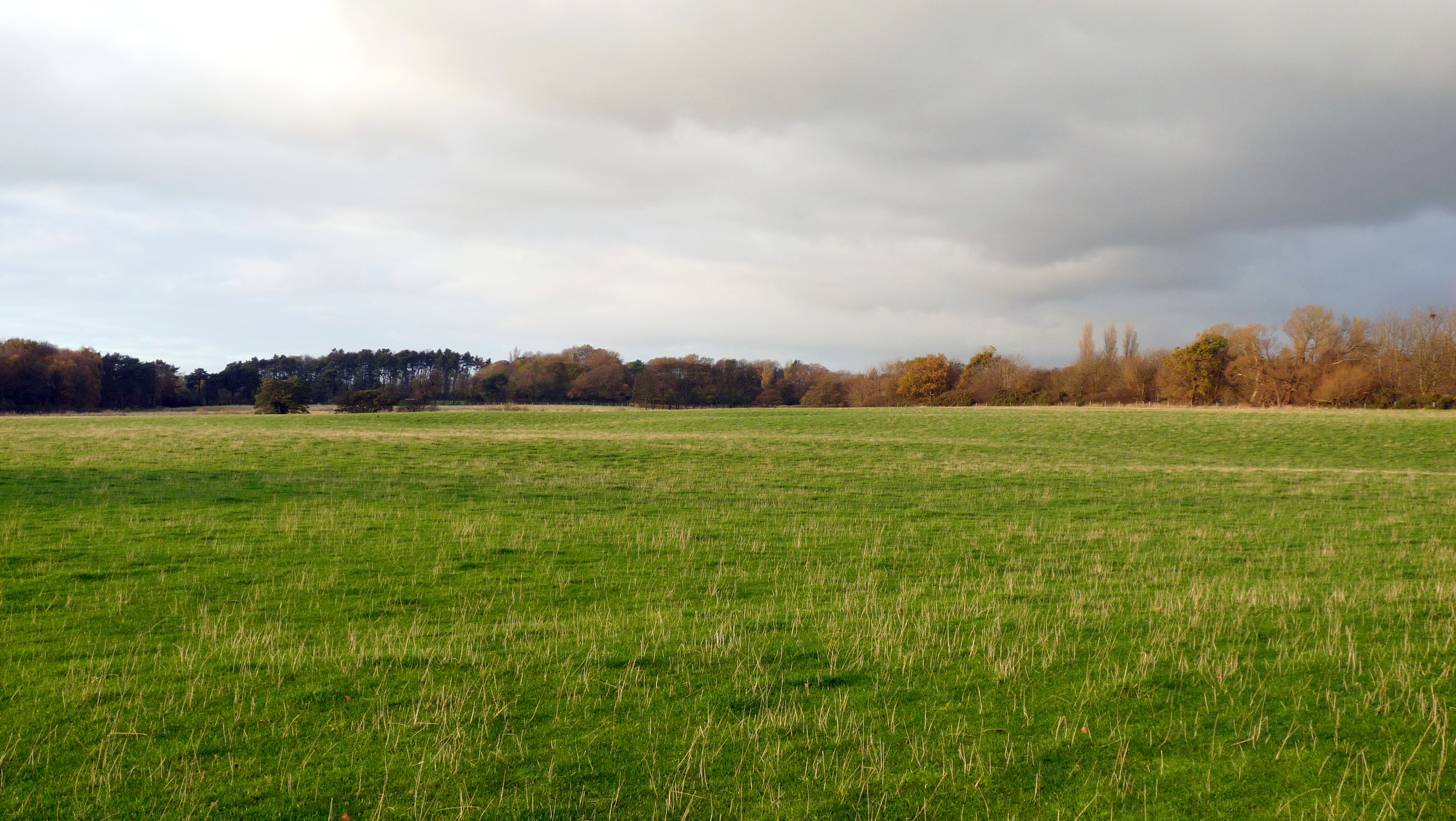 View looking north from Bold Lane in Aughton, West Lancashire, towards empty fields. This is the supposed location of "Argleton", a settlement shown on Google Maps which doesn't actually exist.